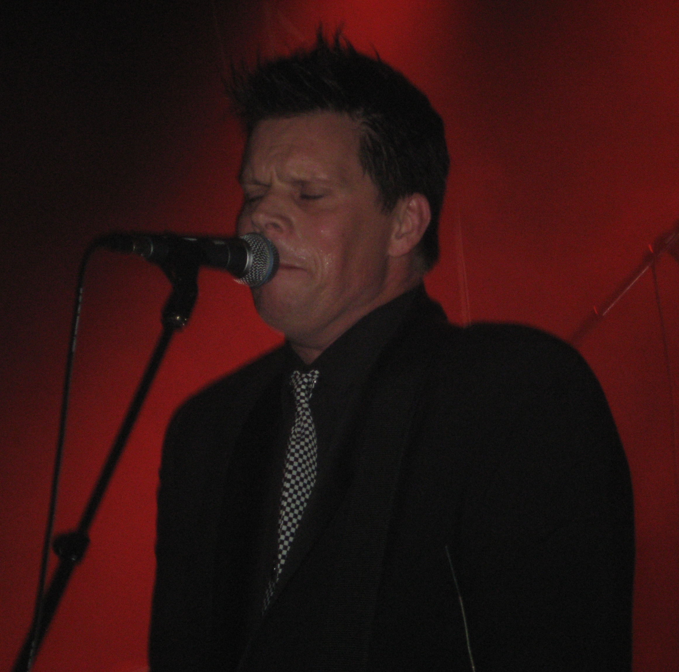 Coca Carola playing at Beat Butcher's 25 year jubilee.